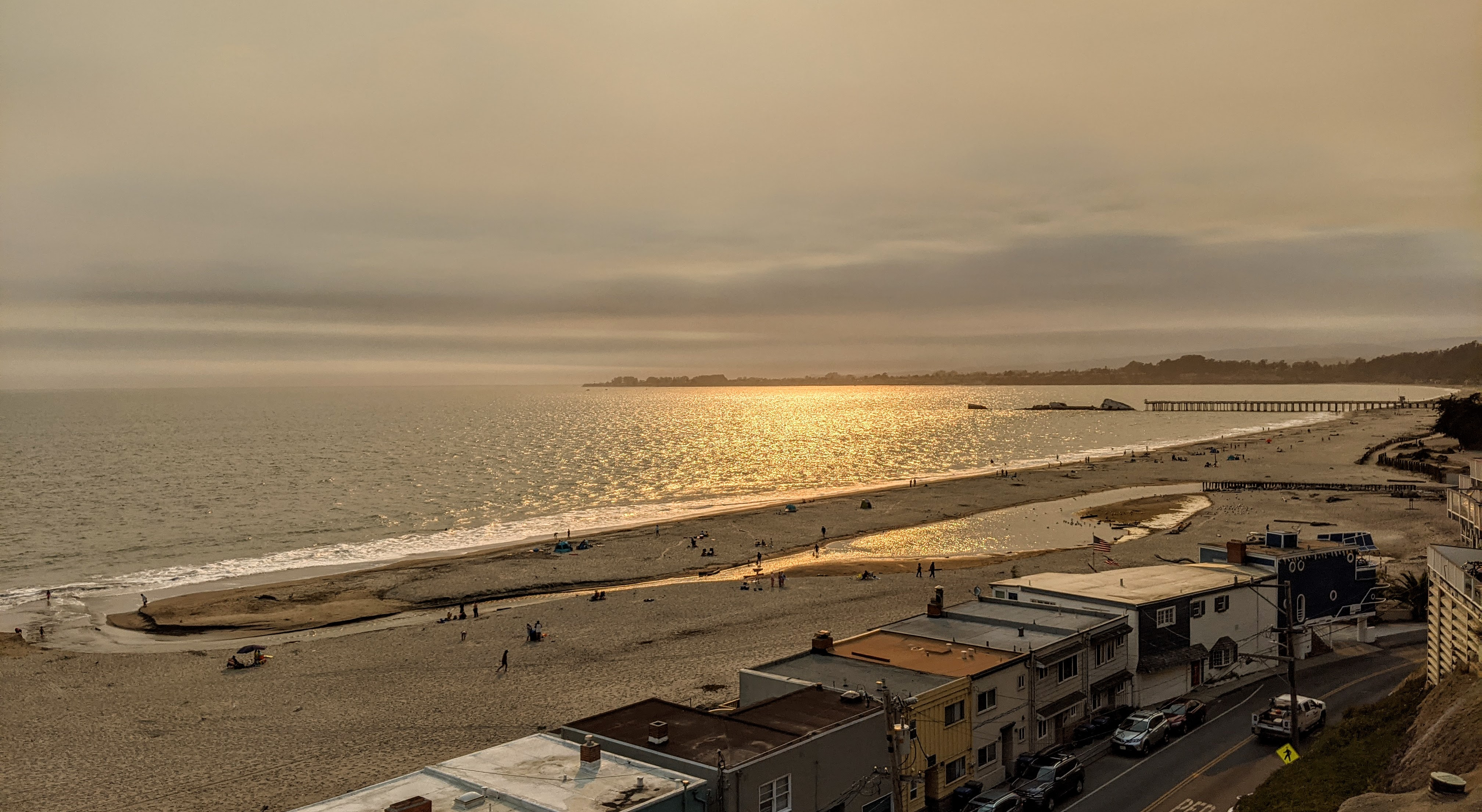 The mouth of Aptos Creek at Aptos, California. The sunlight is orange due to smoke from the Warnella Fire and other fires in Santa Cruz County, California.